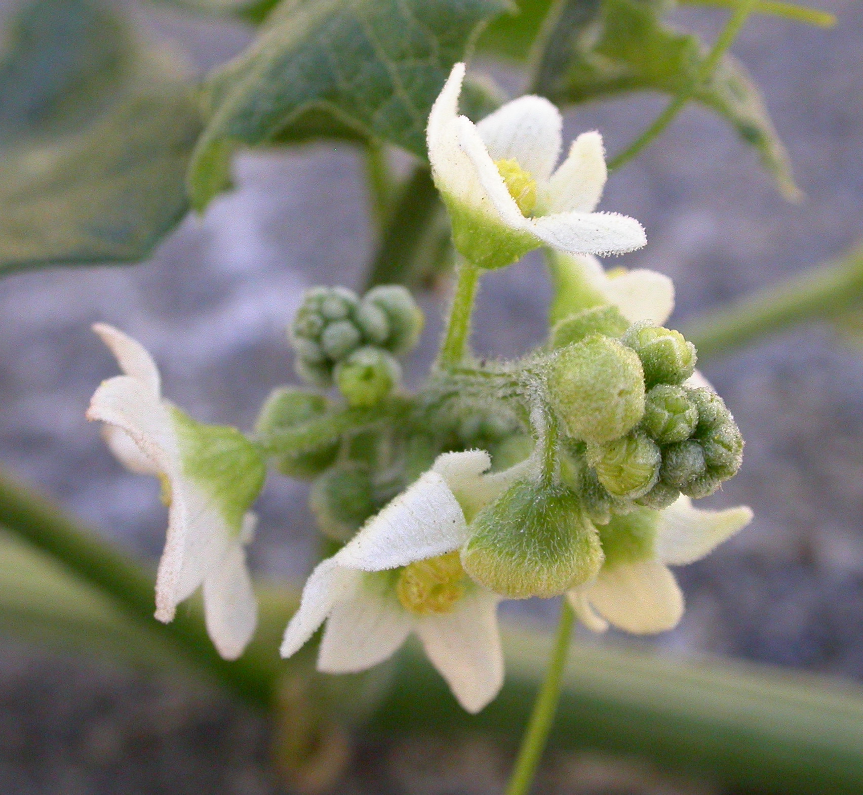 Photographed at BioTrek. Contributed and © by Curtis Clark. Licensed as noted.